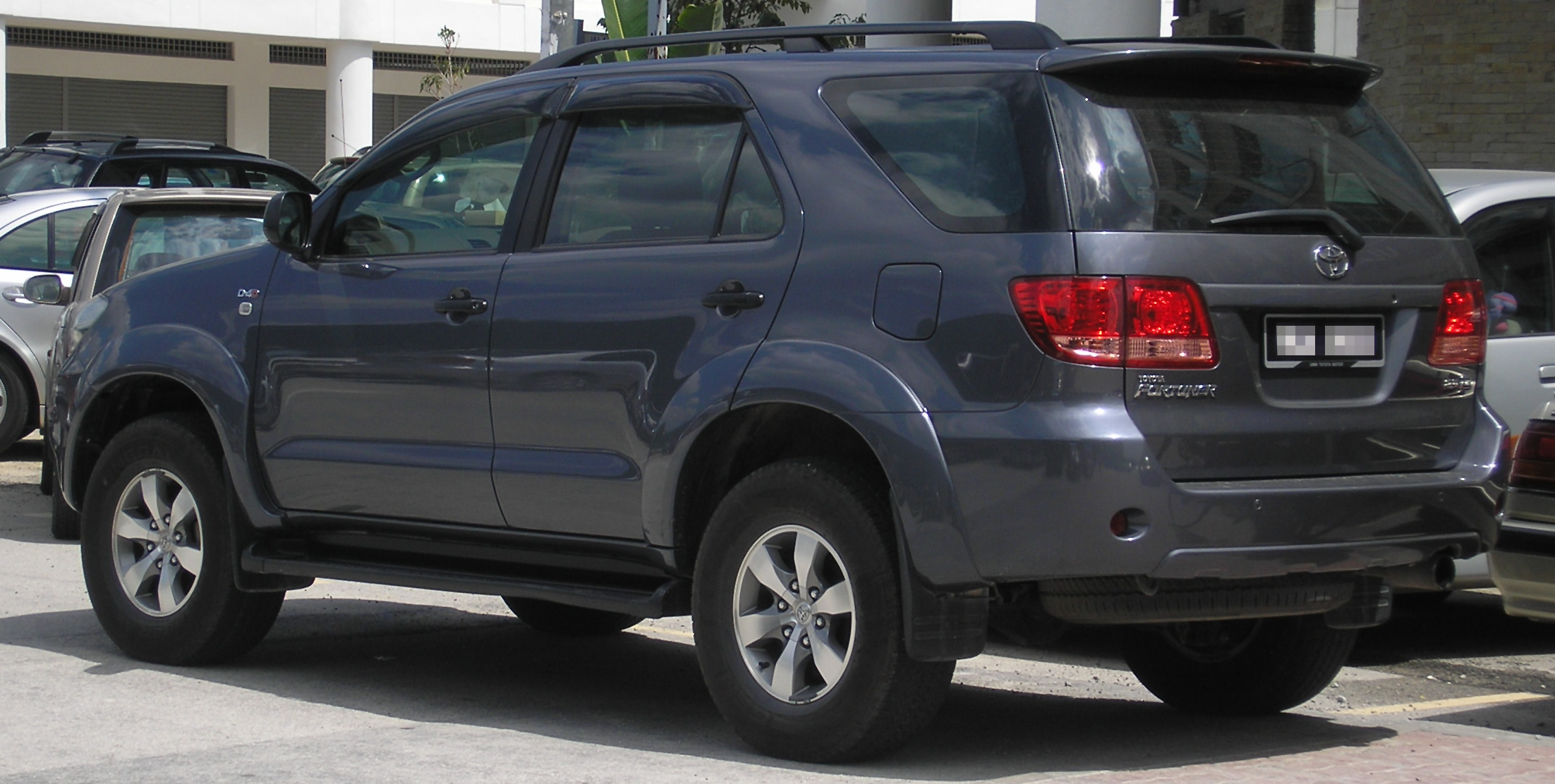 Rear quarter view of a first generation Toyota Fortuner, in Serdang, Selangor, Malaysia.